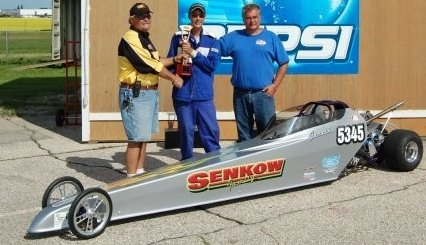 The "Jr" Drivers can still win trophies like the Pro's. Shown Here Gareth Senkow with an Ironman(IHRA Professional Trophy)